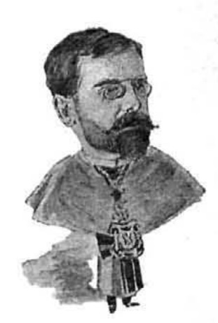 Antoni Rubió i Lluch, in Barcelona cómica magazine of 23.6.1894